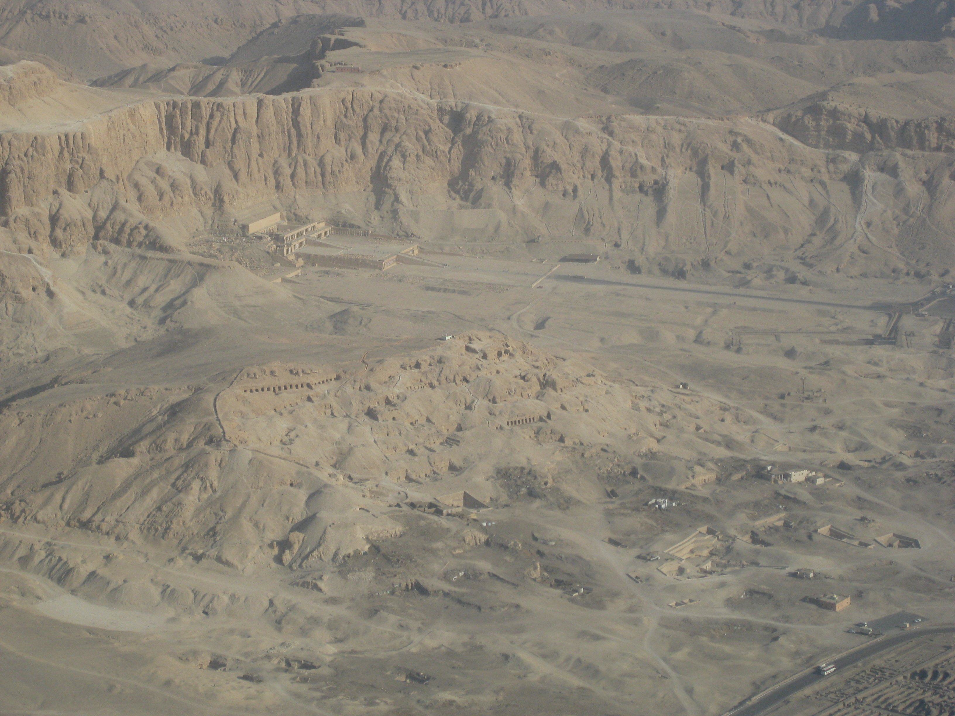 The tombs of the nobles in the Theban necropolis